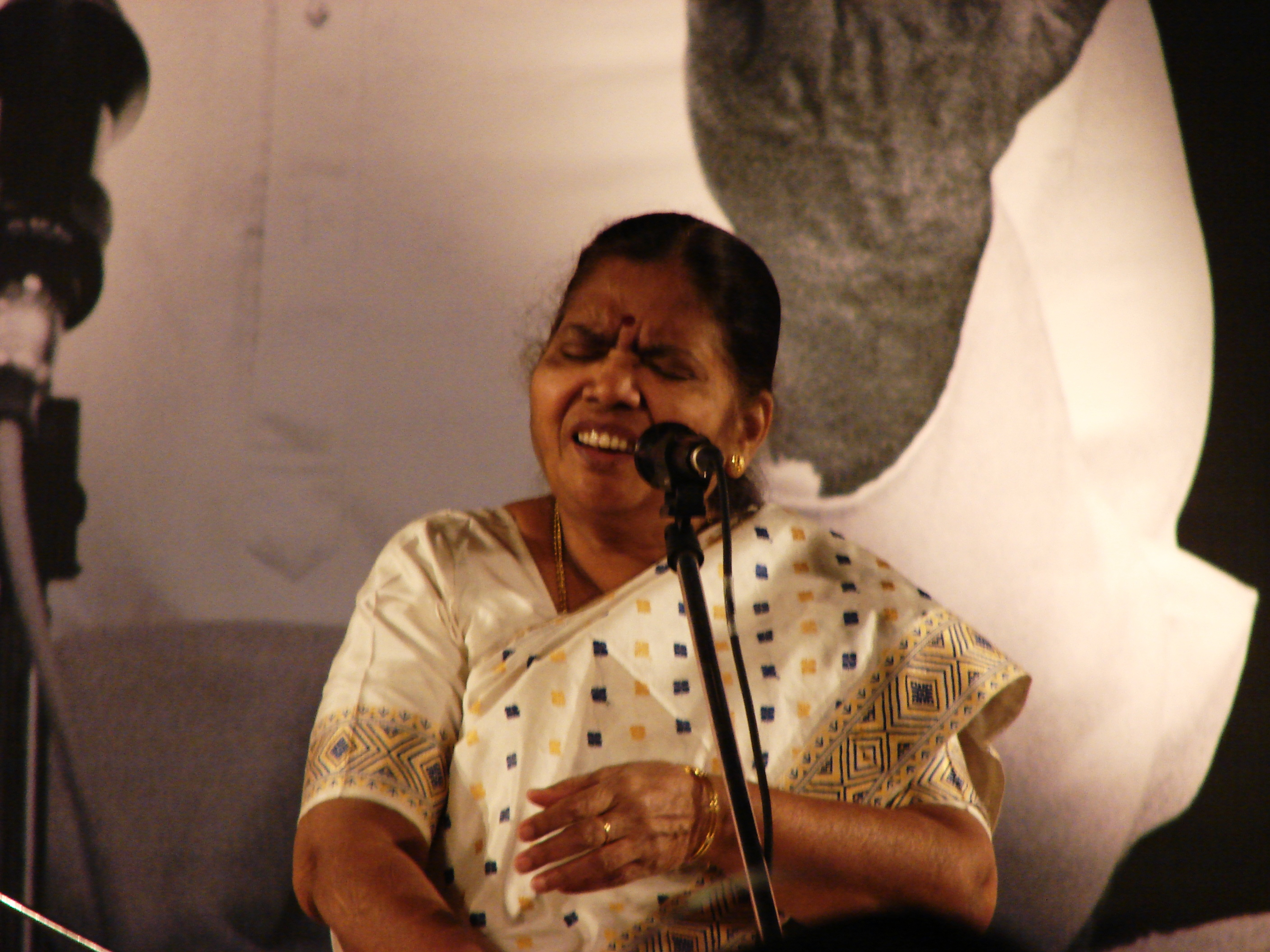 Malini Rajurkar performing in Arghya 2011